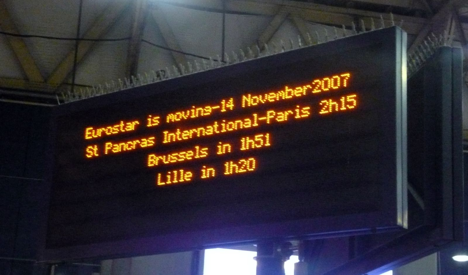 Eurostar: Faster from St Pancras (unless you are coming from the South West when you now have to take more trains) to Paris.